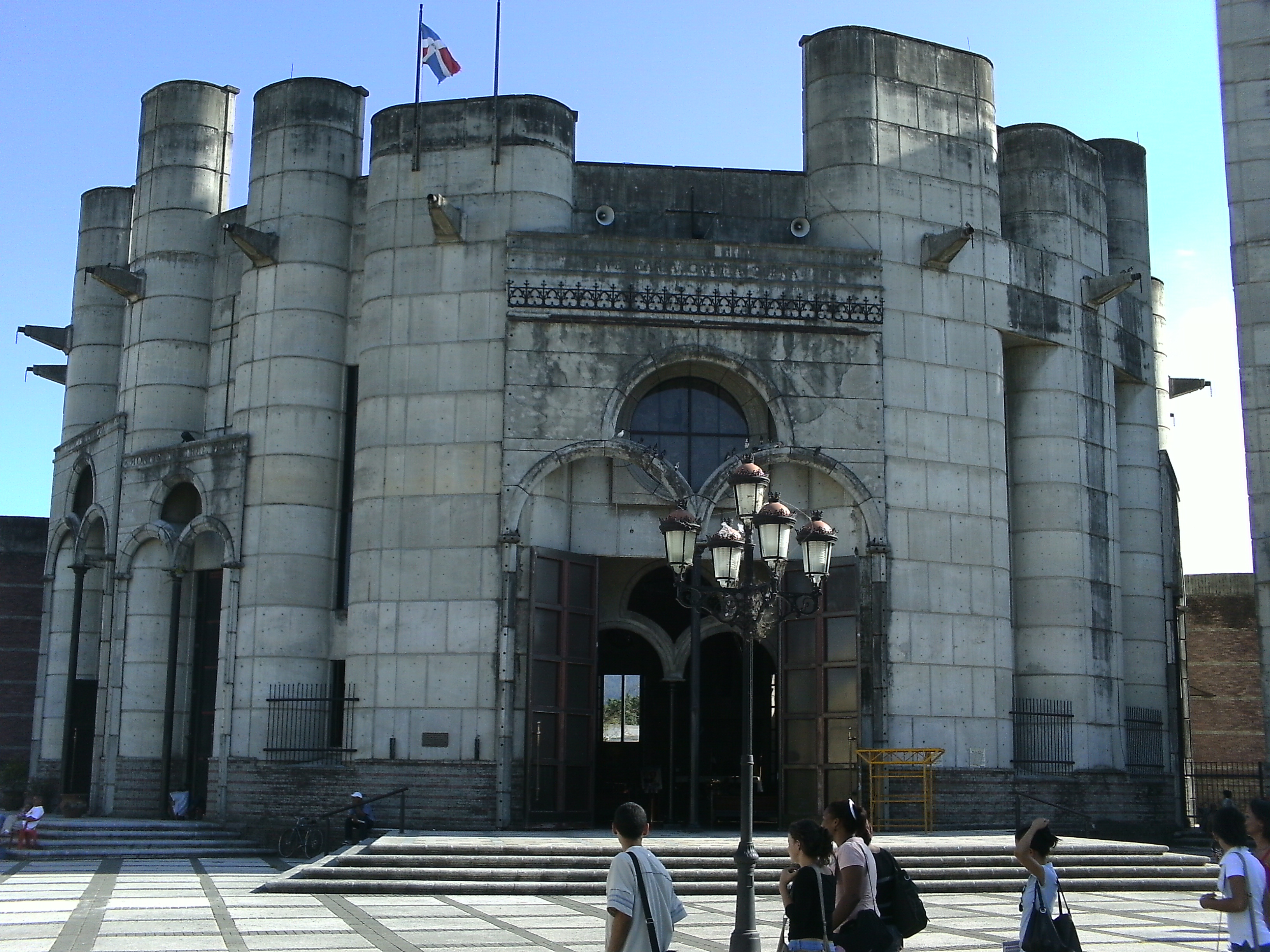 Cooncepcion la vega's catedral